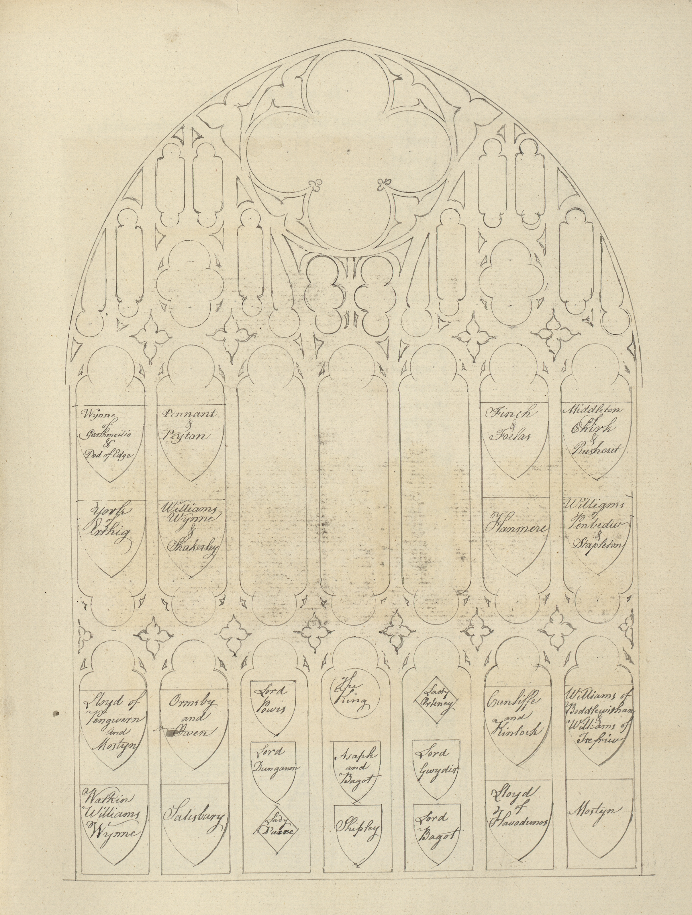 An image from a set of 8 extra-illustrated volumes of A tour in Wales by Thomas Pennant (1726-1798) that chronicle the three journeys he made through Wales between 1773 and 1776. These volumes are unique because they were compiled for Pennant's own library at Downing. This edition was produced in 1781. The volumes include a number of original drawings by Moses Griffiths, Ingleby and other well known artists of the period. Thomas Pennant (1726-1798)